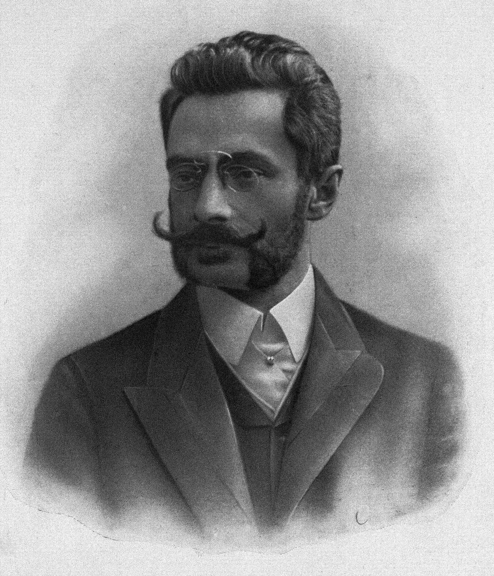 Franz Eduard Matras (1862–1945), mountaineer, Austrian sports official and manager (Hutter & Schrantz Metallwarenfabrik).